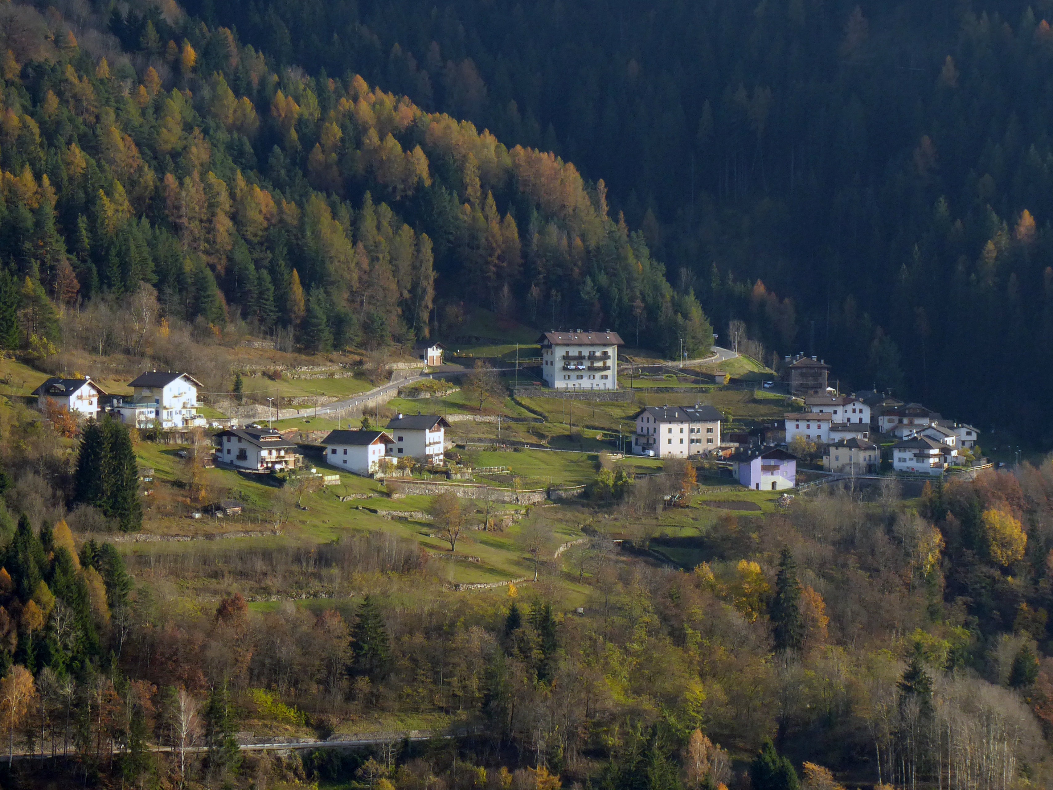 Barcatta (Valfloriana) as seen from Capriana